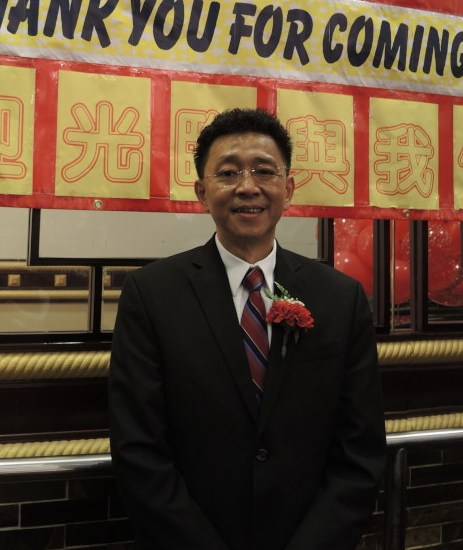 布祿崙華人協會會長兼創辦人麥保羅